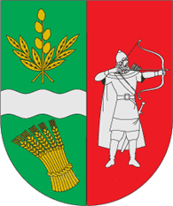 Coat of arms of Rokytnyanskyi Raion (Kyiv Oblast Ukraine)